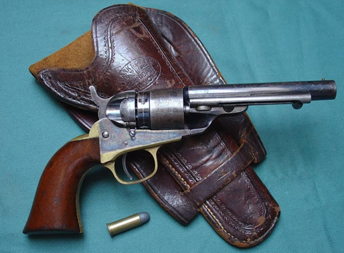 Colt Small Frame Conversion